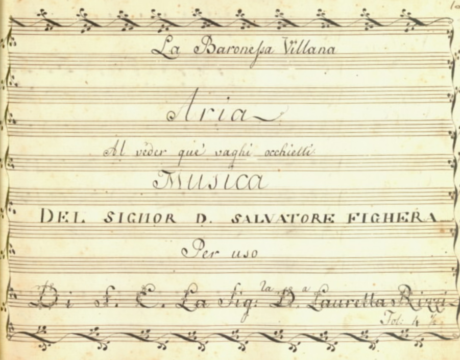 Title page of the score for the aria " Al veder que' vaghi occhietti" from La baronessa villana by Salvatore Fighera (1771–1837)